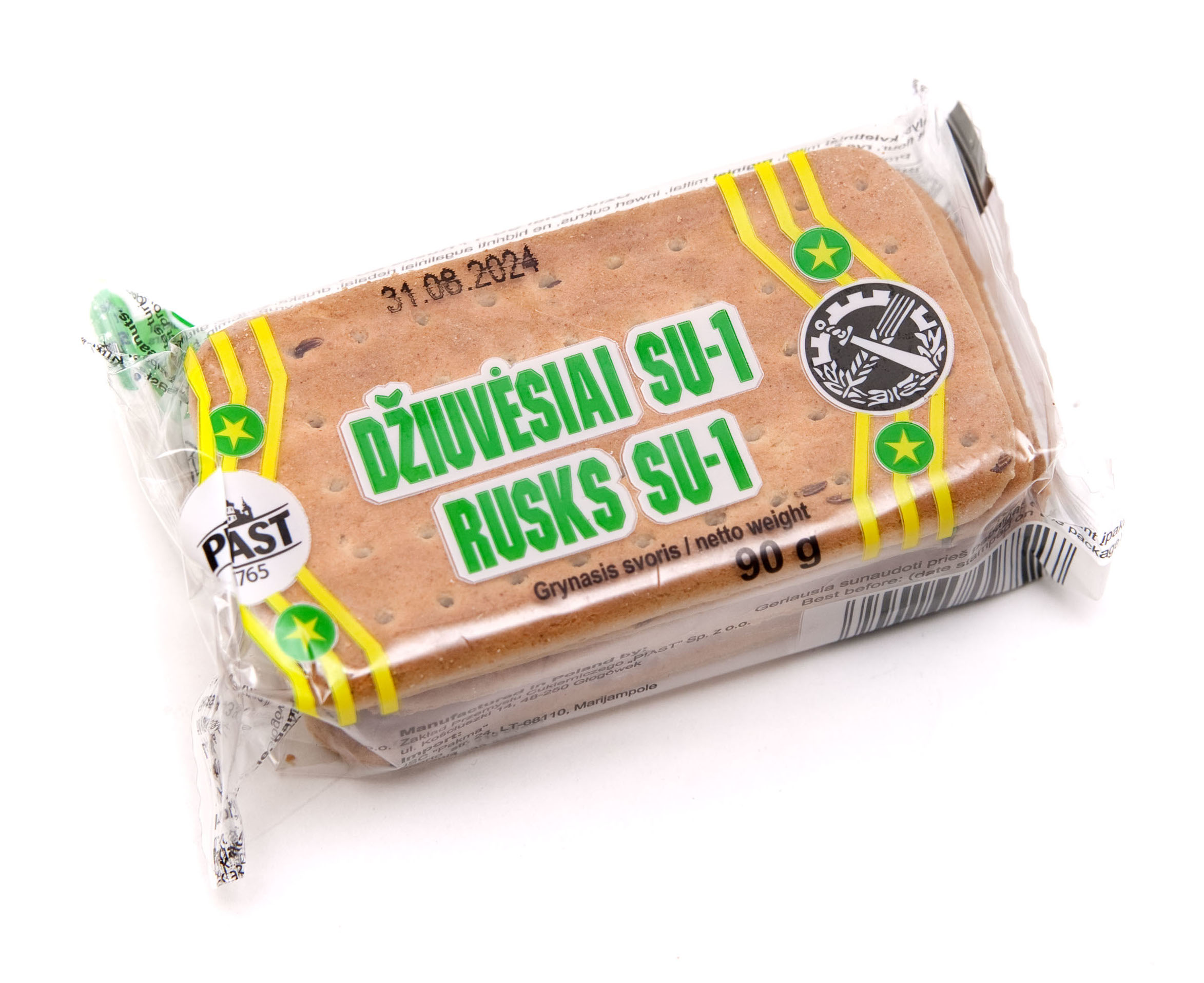 Two packets of Polish SU-1 hardtack rusks.